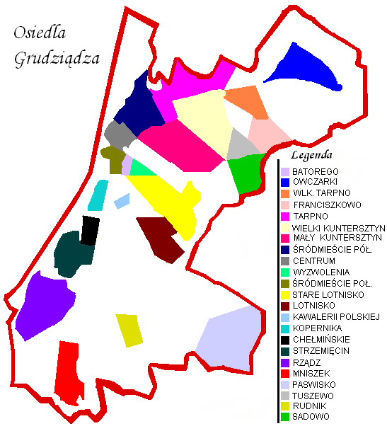 Map of districts in Grudziądz, Poland.